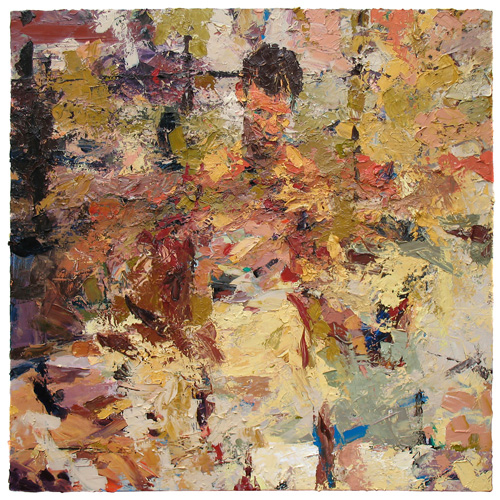 photo of Joshua Meyer's painting "Seek" in the collection of Hebrew College in Boston